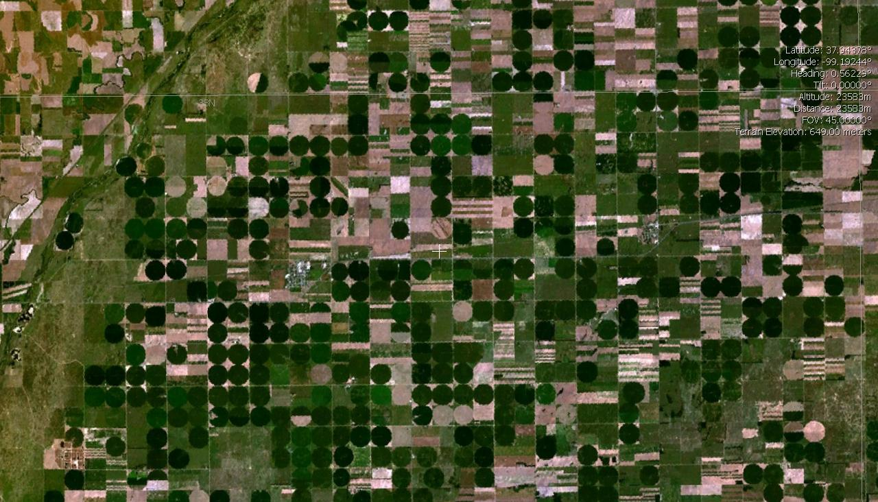 Description Central pivot irrigation in the U.S., around Lewis, Kansas NASA Worldwind image. worldwind://goto/world=Earth&lat=37.94378&lon=-99.19244&alt=24232&dir=0.6